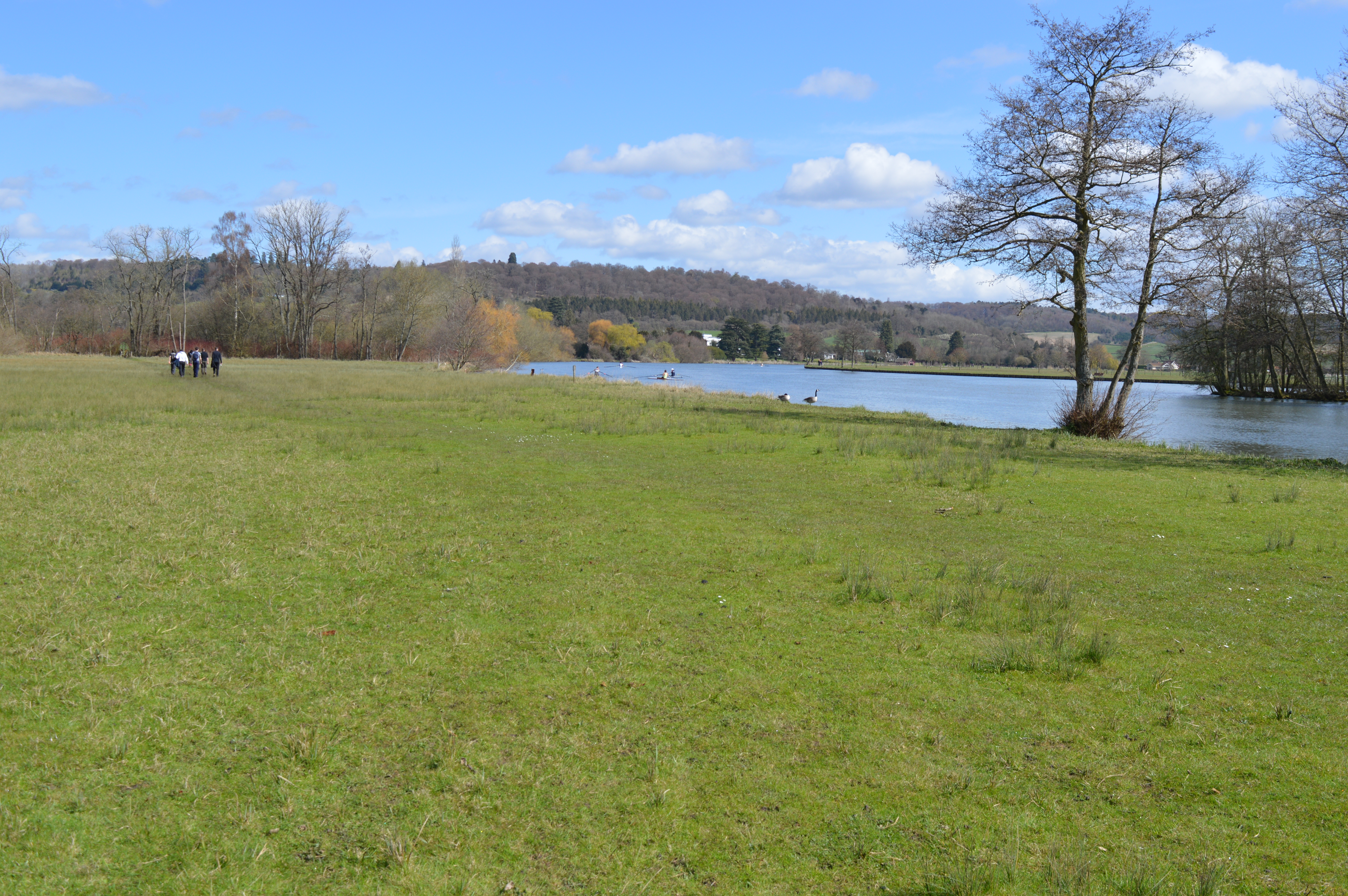 Temple Island Meadows, a biological Site of Special Scientific Interest on the bank of the River Thames in Buckinghamshire, between Medmenham and Henley-on-Thames